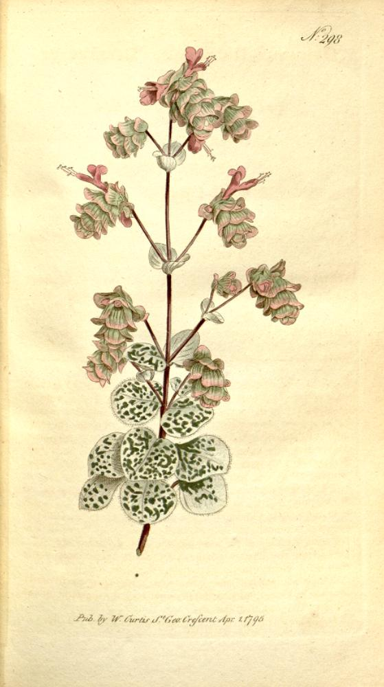 Illustration of Origanum dictamnus